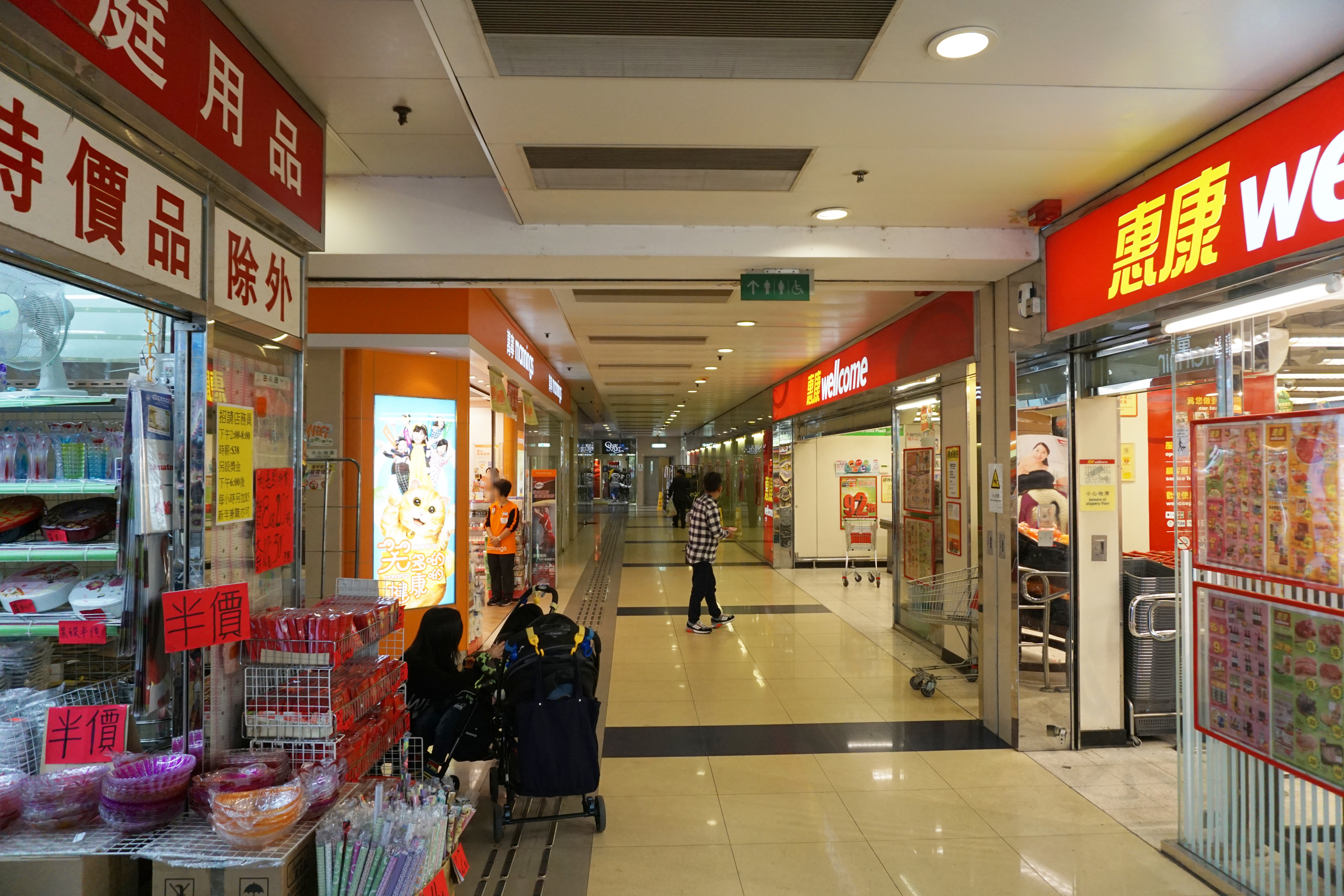 Grandeur Terrace Shopping Centre in Tin Shui Wai, Hong Kong.